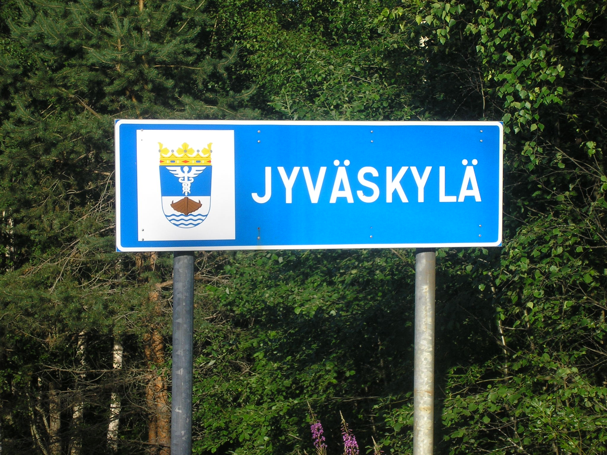 Municipal border sign of Jyväskylä.